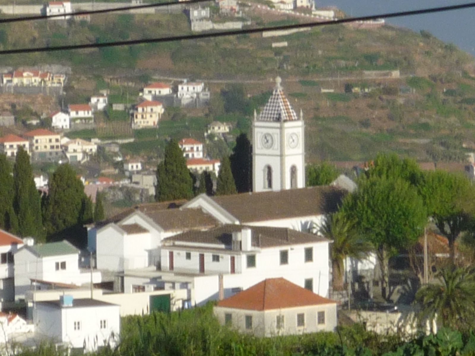 The church of Nossa Senhora da Piedade, also dedicated to Santiago in Canhas, Madeira.